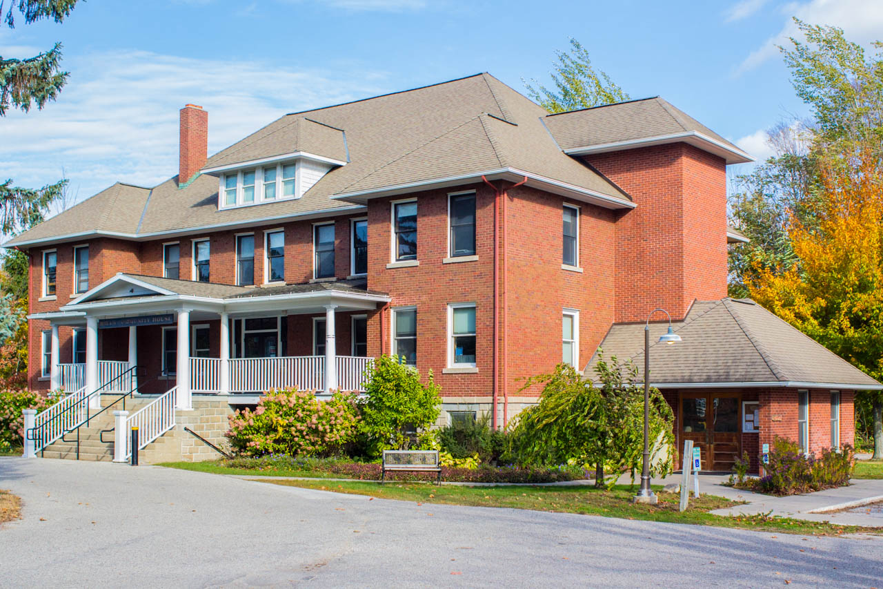 National Register of Historic Places Benzie County, MI